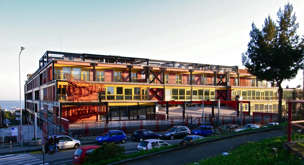 Department of Physics and Astronomy, University of Catania